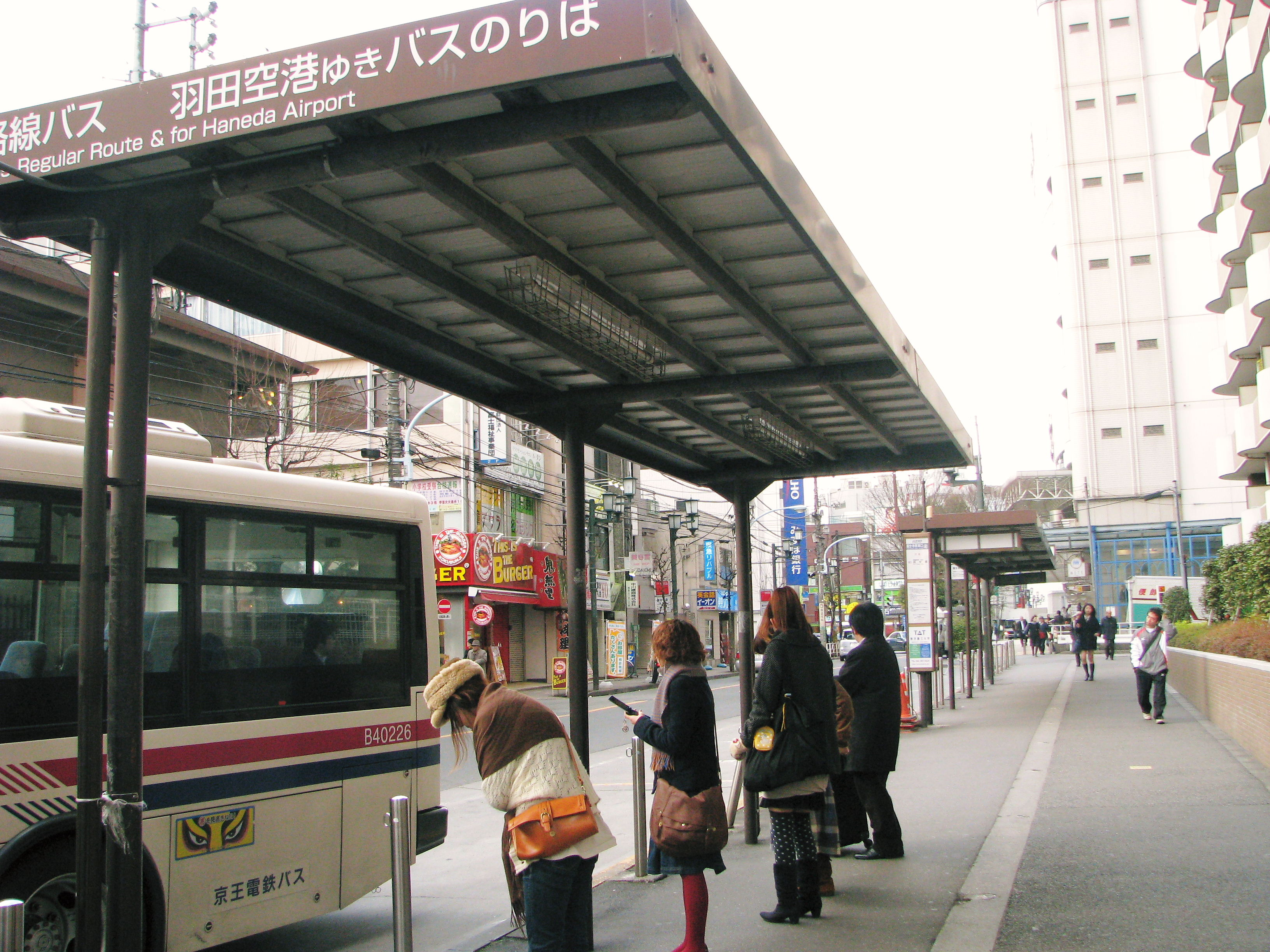 Kokubunji Station South bus ter., Kokubunji C, Tokyo M.